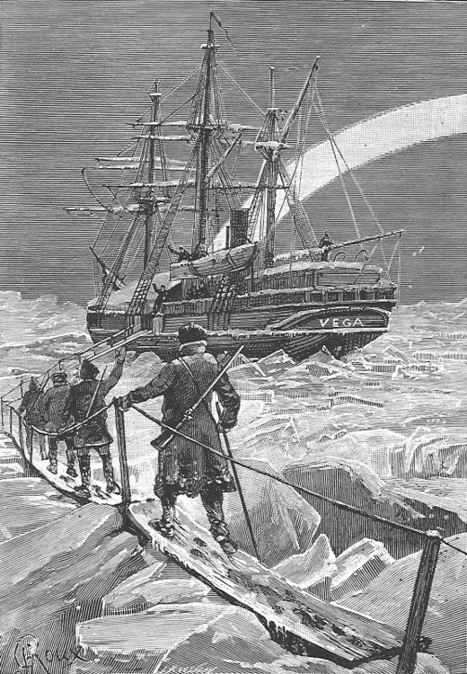 An illustration from André Laurie's (pseudonym of Jean François Paschal Grousset) and Jules Verne's novel "The Waif of the Cynthia" (1884) drawn by George Roux.